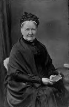 Photograph of Janet Bathgate, Scottish writer, 1806-1898. Cropped version.